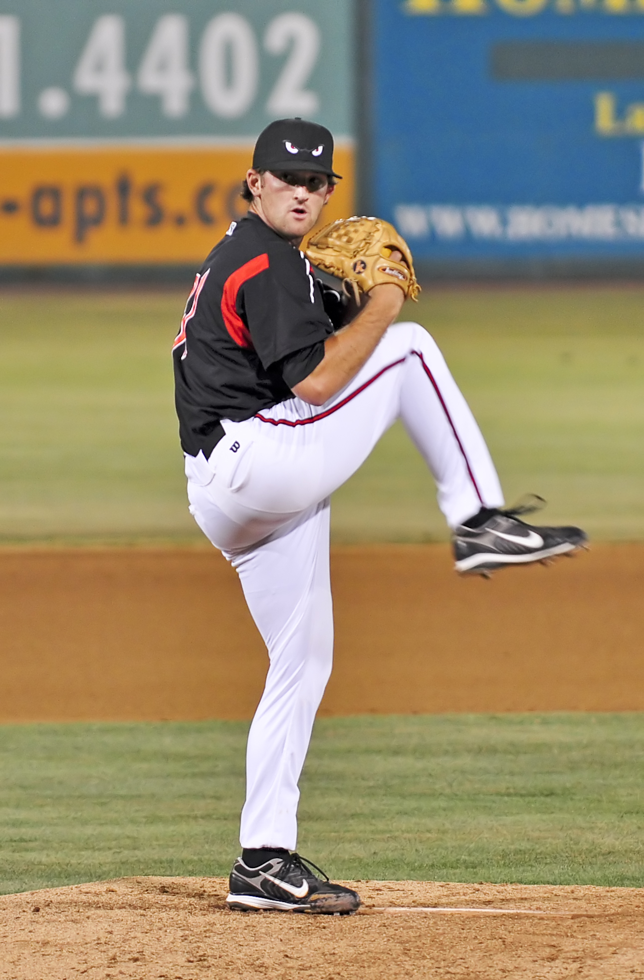 Colt Hynes in 2009.